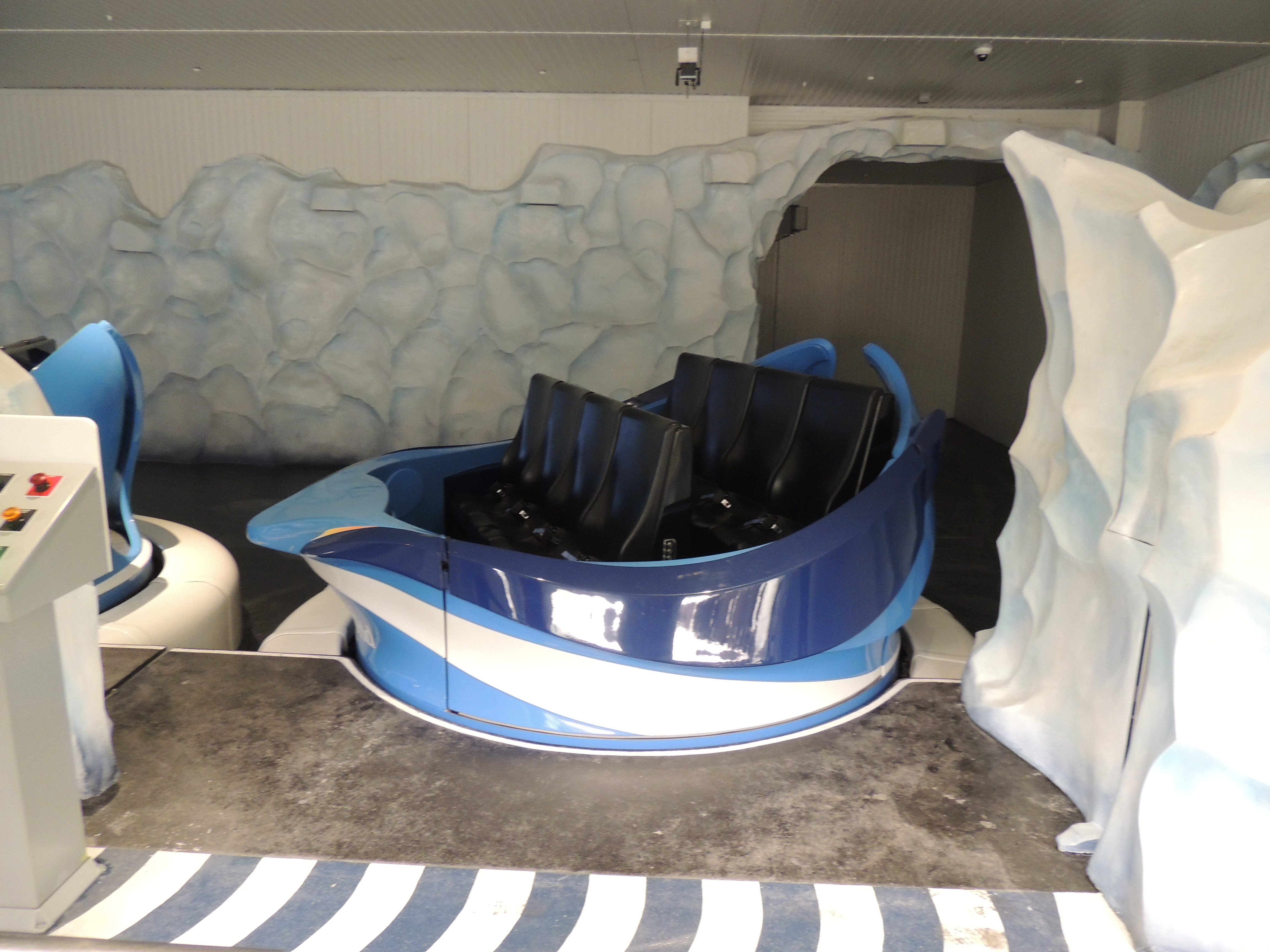 SeaWorld Orlando Anarctica: Empire of the Penguin